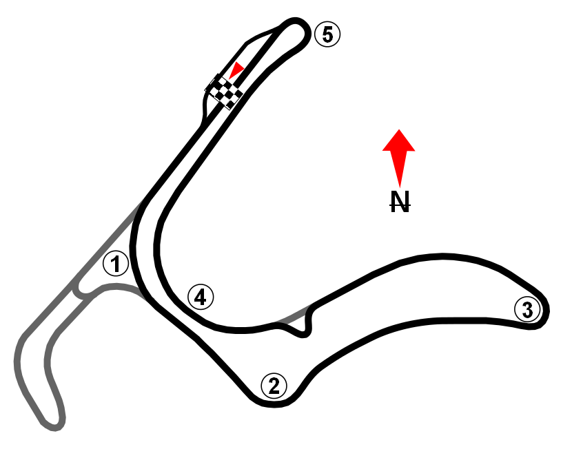 Map of CAB Street Circuit, in Salvador, Brazil. Free to use.